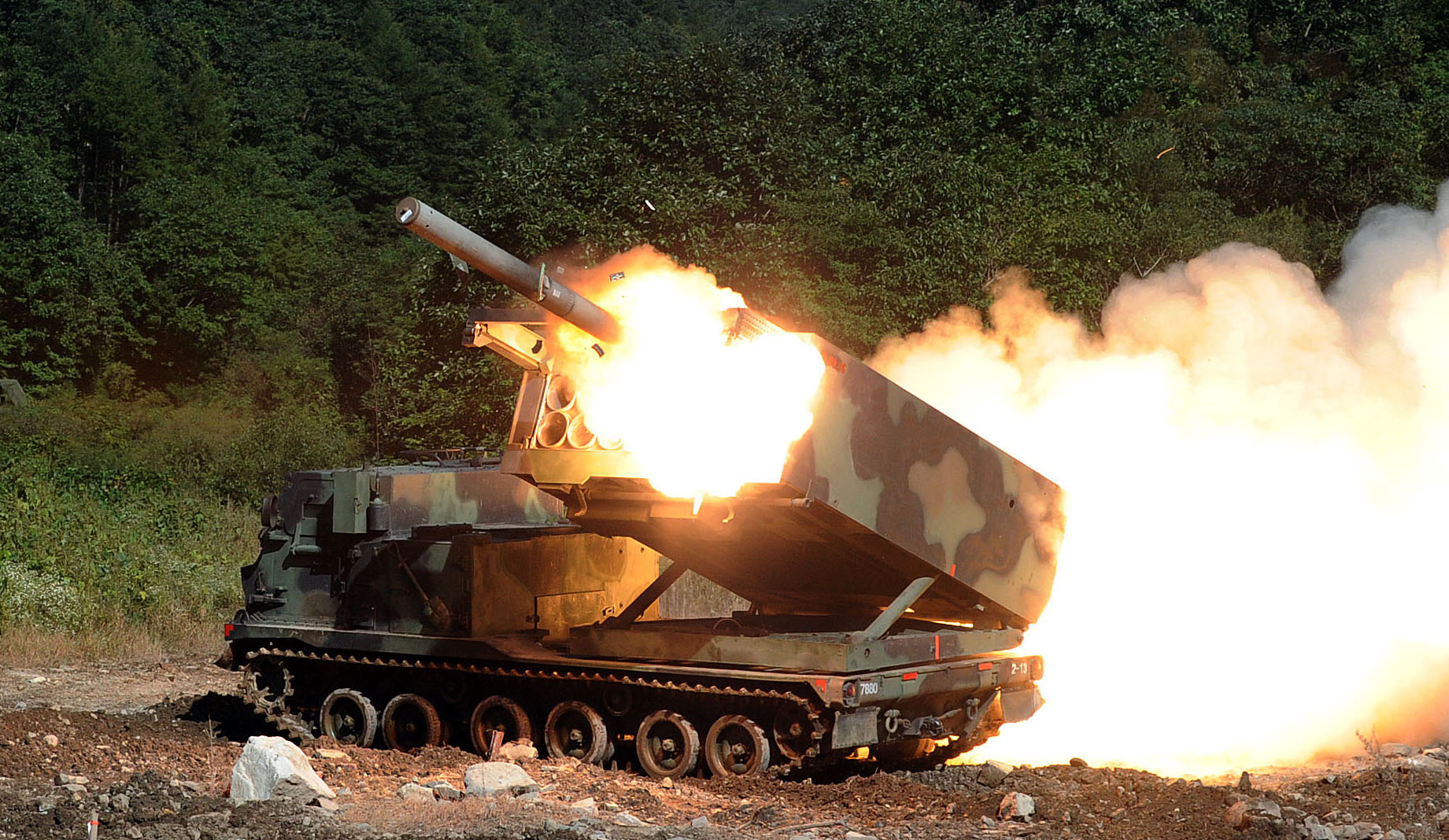 MLRS (Multiple Launch Rocket System) of Republic of Korea Army